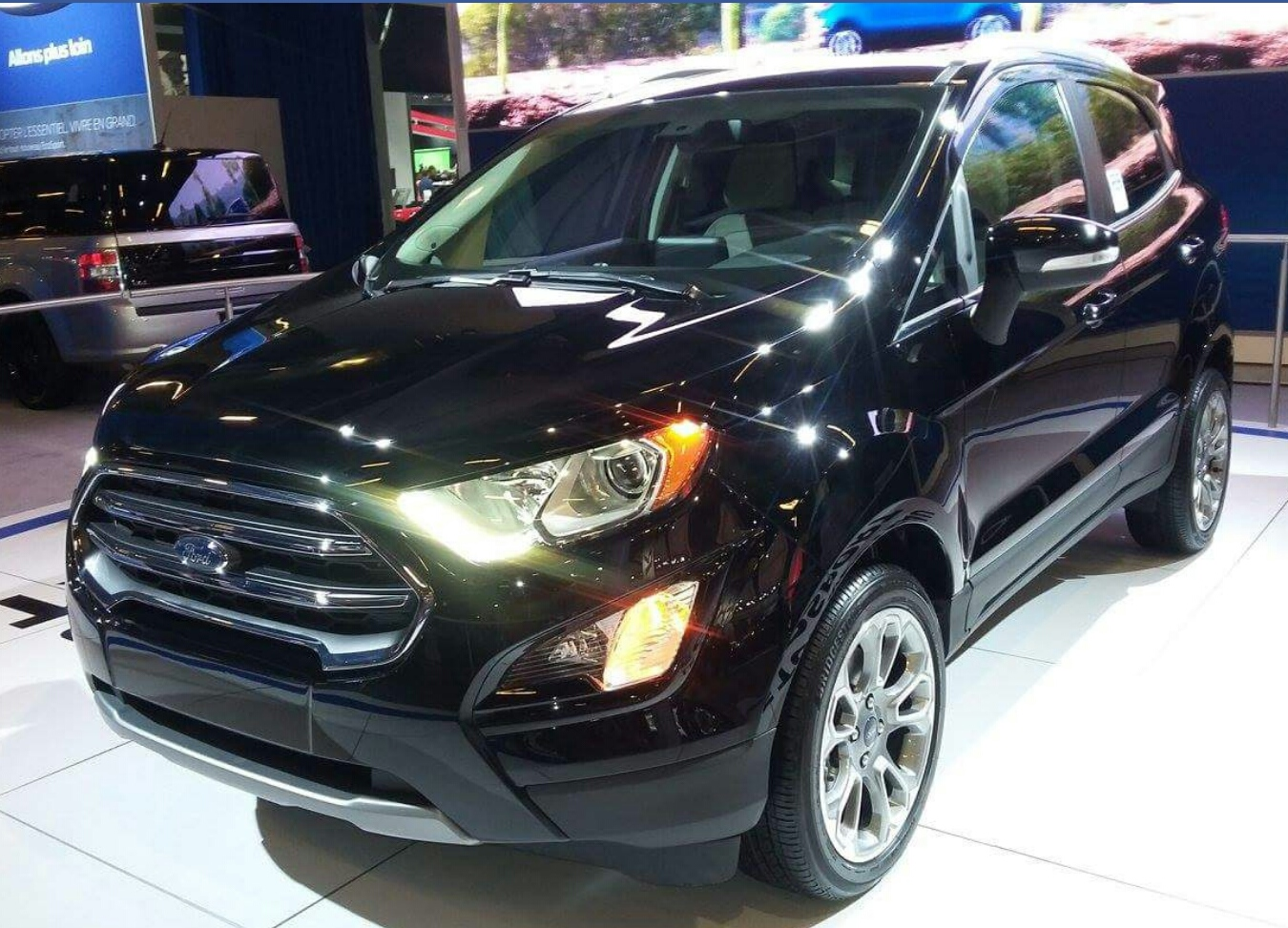 2018 Ford EcoSport photographed in Montreal, Quebec, Canada inside the 2017 Montreal International Auto Show.